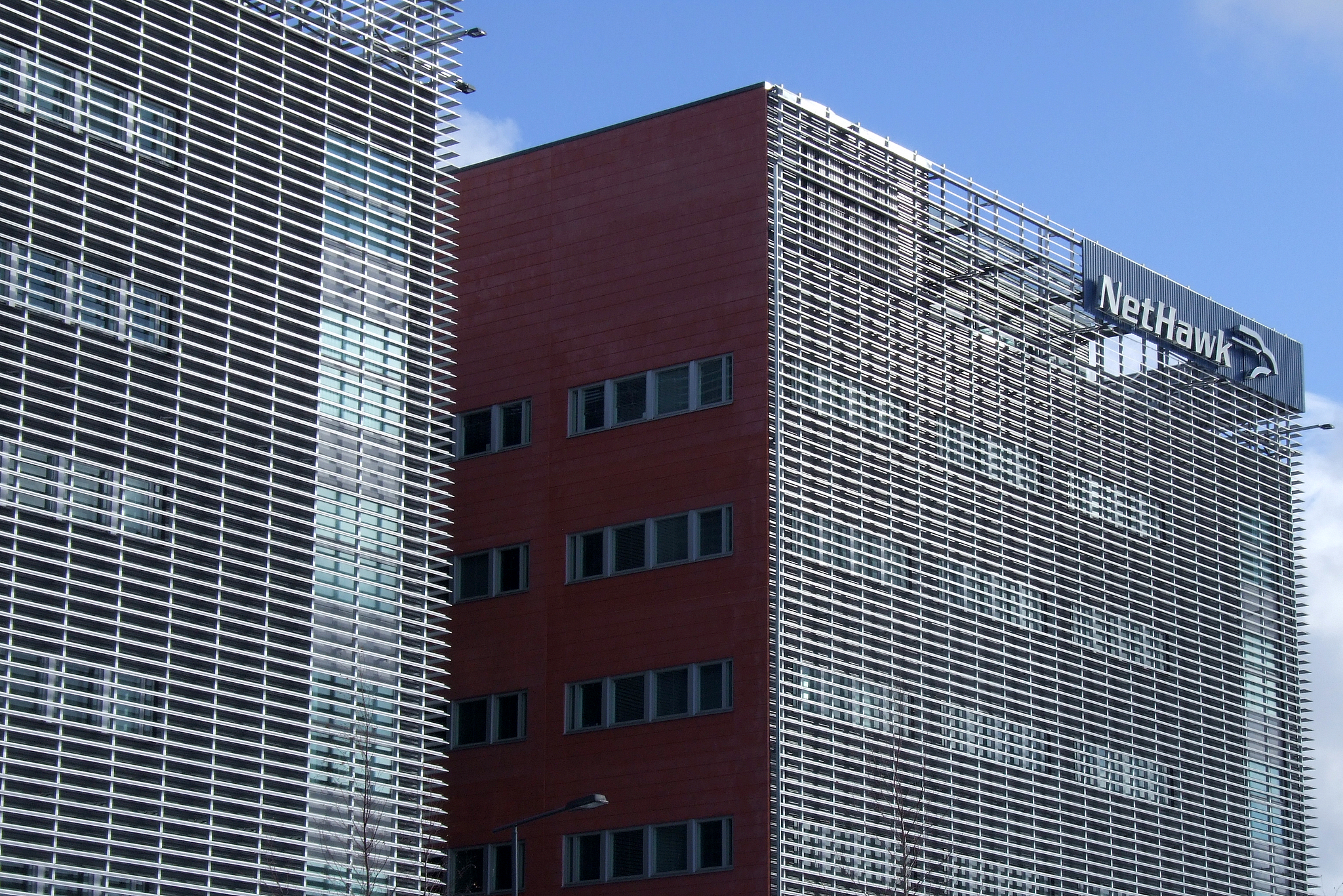 The headquarters of NetHawk Oyj (Public Ltd.) in Oulu, Finland. The building was designed by Laatio Architects Ltd